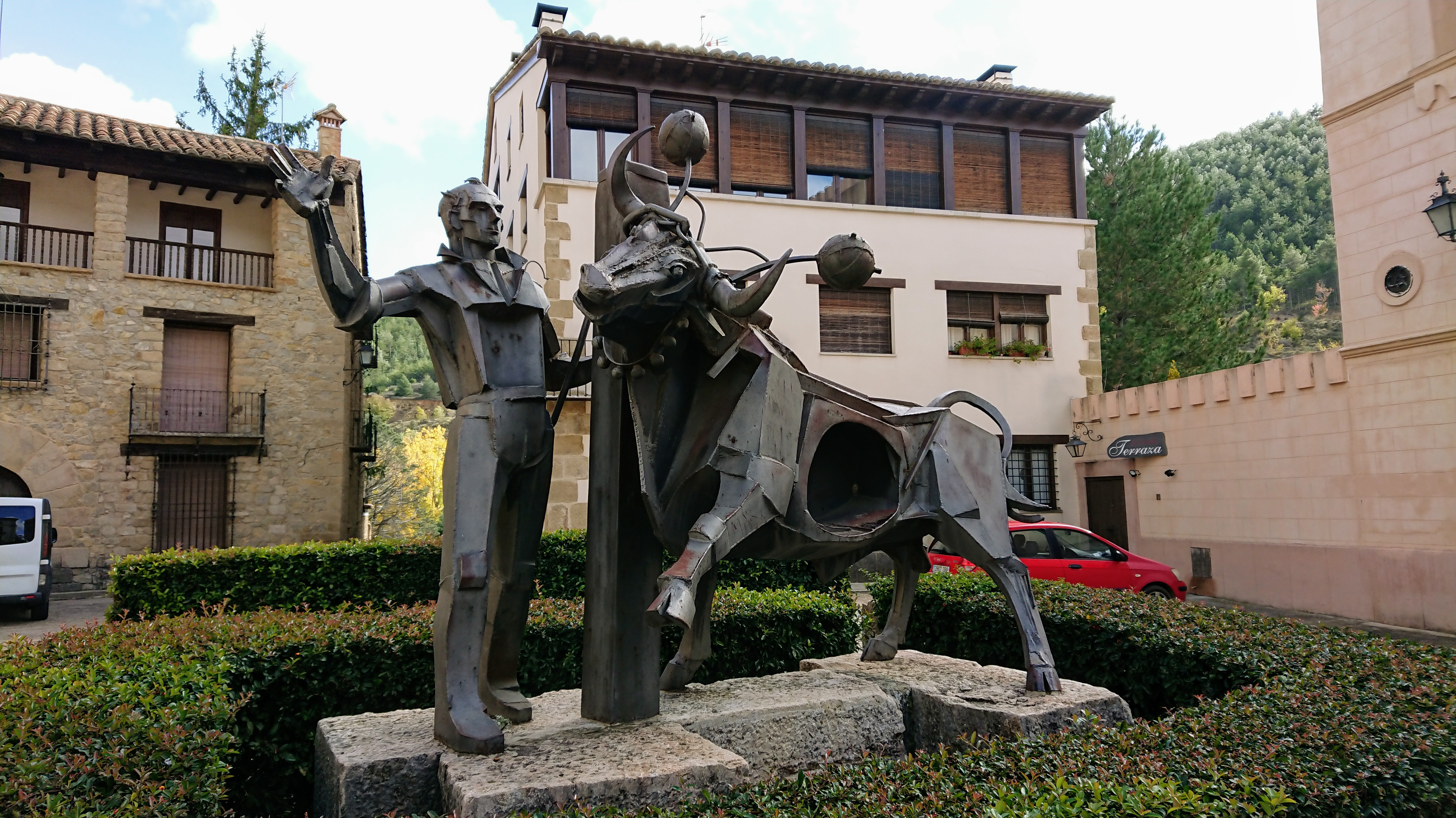 Rubielos de Mora 4, Teruel (Spain)